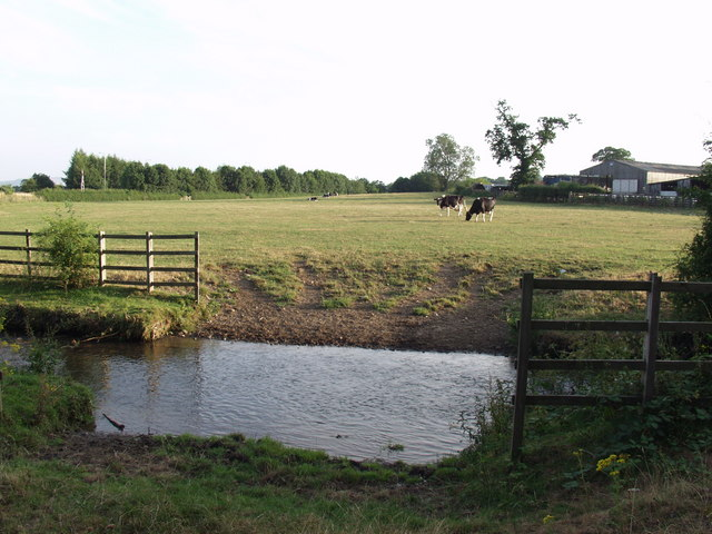 Cows grazing beyond the ford. This ford allows access to fields on the other side of the River Morda at Weston. The cows are short of fresh grass due to the dry weather and are being fed silage left from last winter.